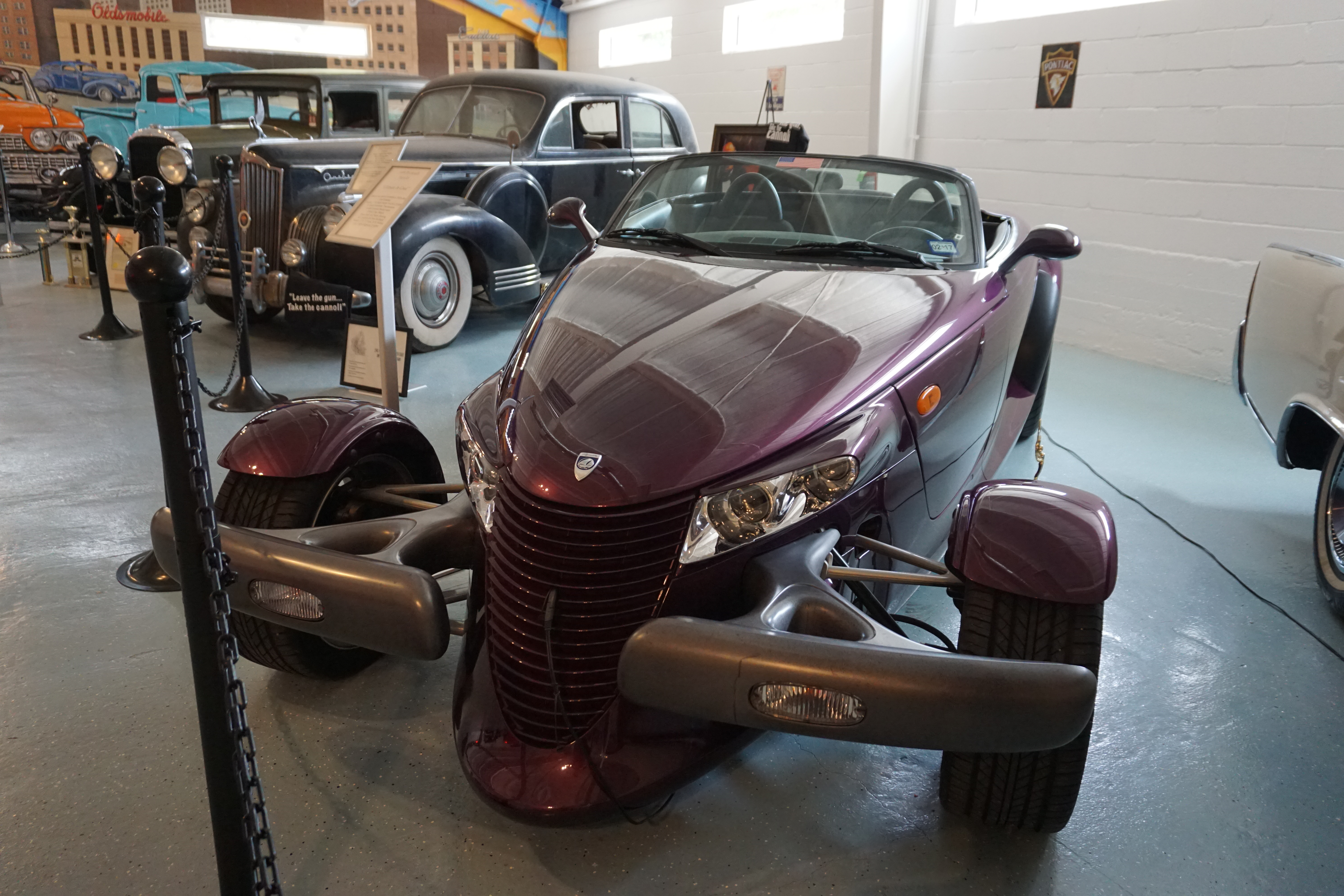 A 1999 Plymouth Prowler at the Vintage Grill & Car Museum in Weatherford, Texas (United States).